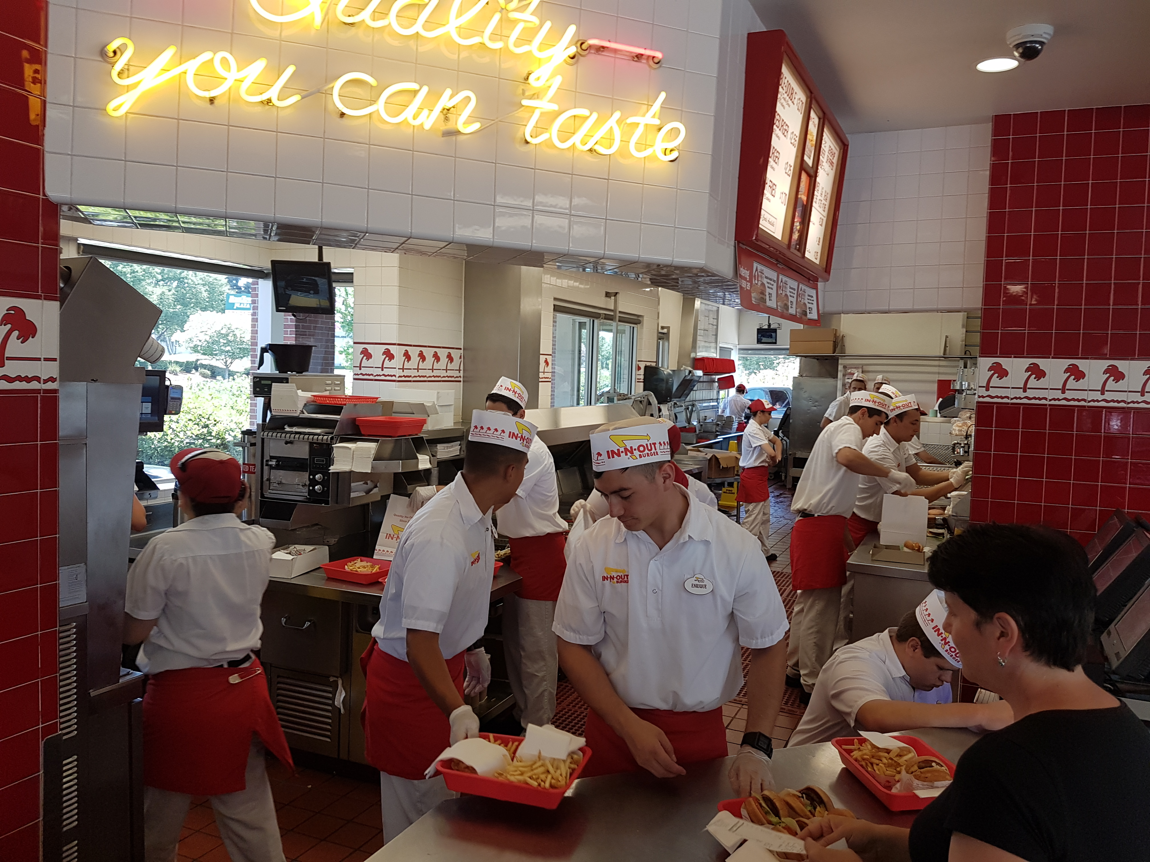 Standard kitchen and customer counter area of an In-n-Out branch. At high peak times up to 16 associates are working in abranch. One associate is outside registering drive-thru orders, another cleaning up in the dining area.